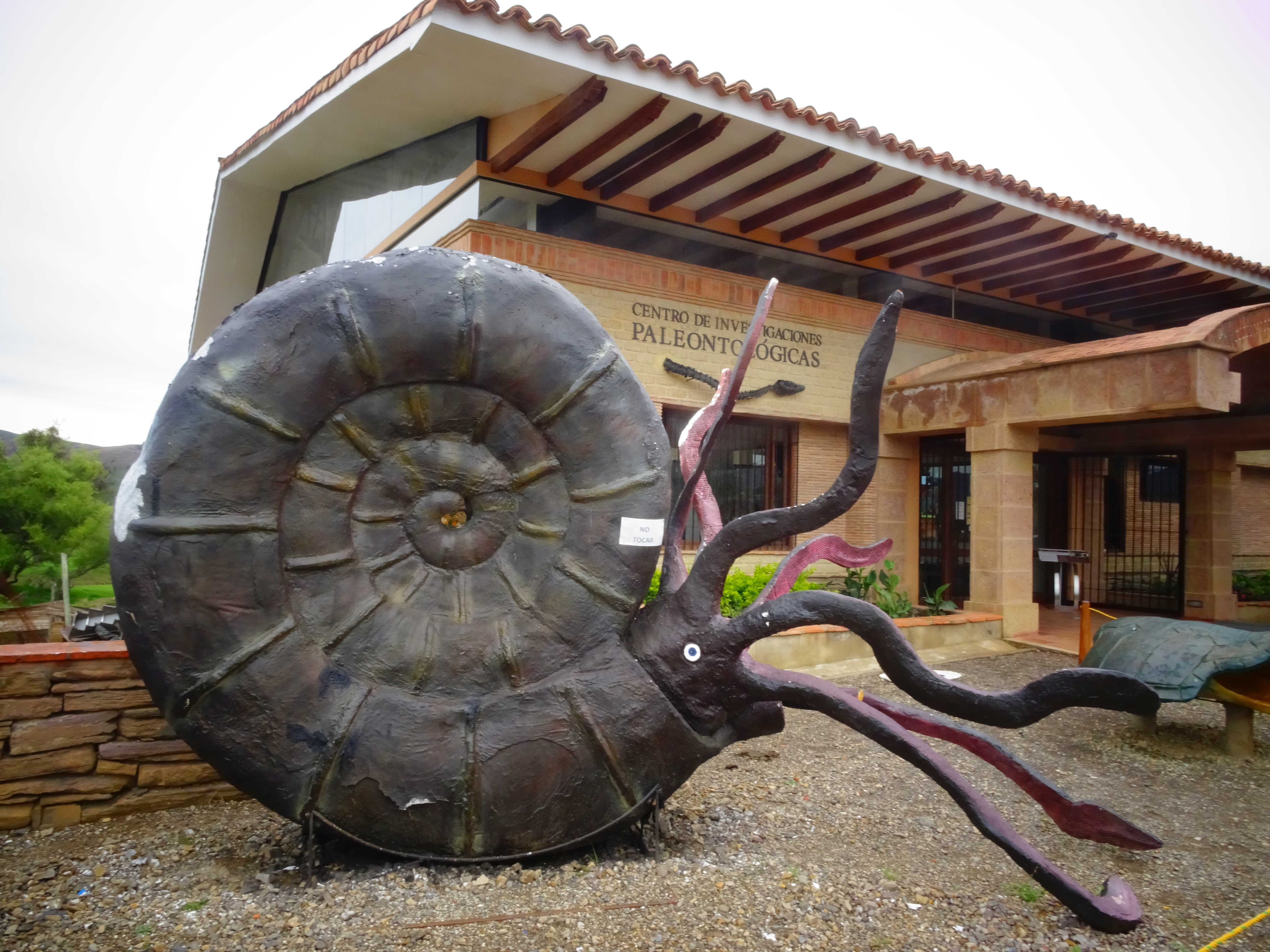 Centro de Investigaciones Paleontológicas - Villa de Leyva, Colombia